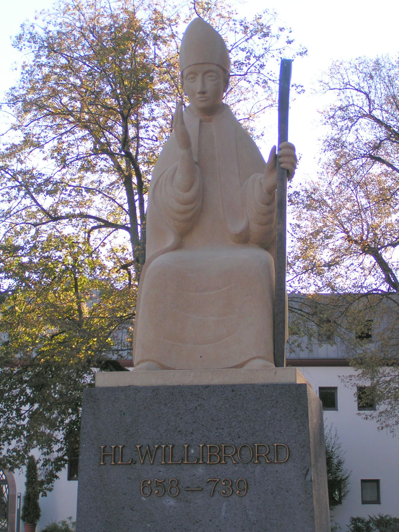 Memorial for Willibrord in Trier, Germany